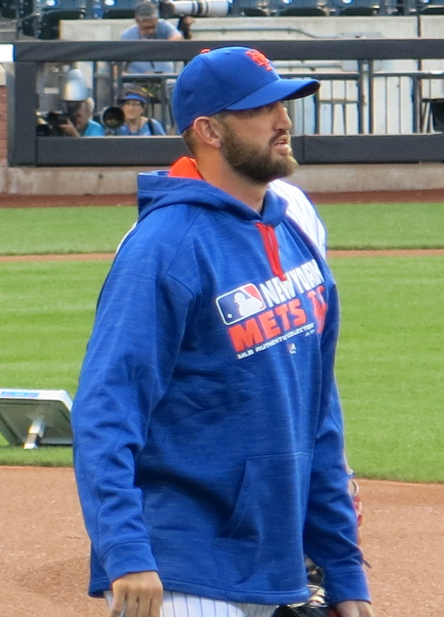 Jon Niese of the New York Mets, August 2, 2016.